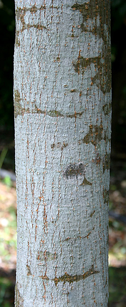 Large-leaved Mahogany Swietenia macrophylla in Kolkata, West Bengal, India.